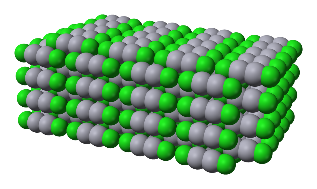 Space-filling model of part of the crystal structure of calomel, mercury(I) chloride, Hg2Cl2. Structural data from the CrystalMaker 8.1 structure library, originally from Calos N J, Kennard C H L, Davis R L (1989) Zeitschrift für Kristallographie 187:305-.